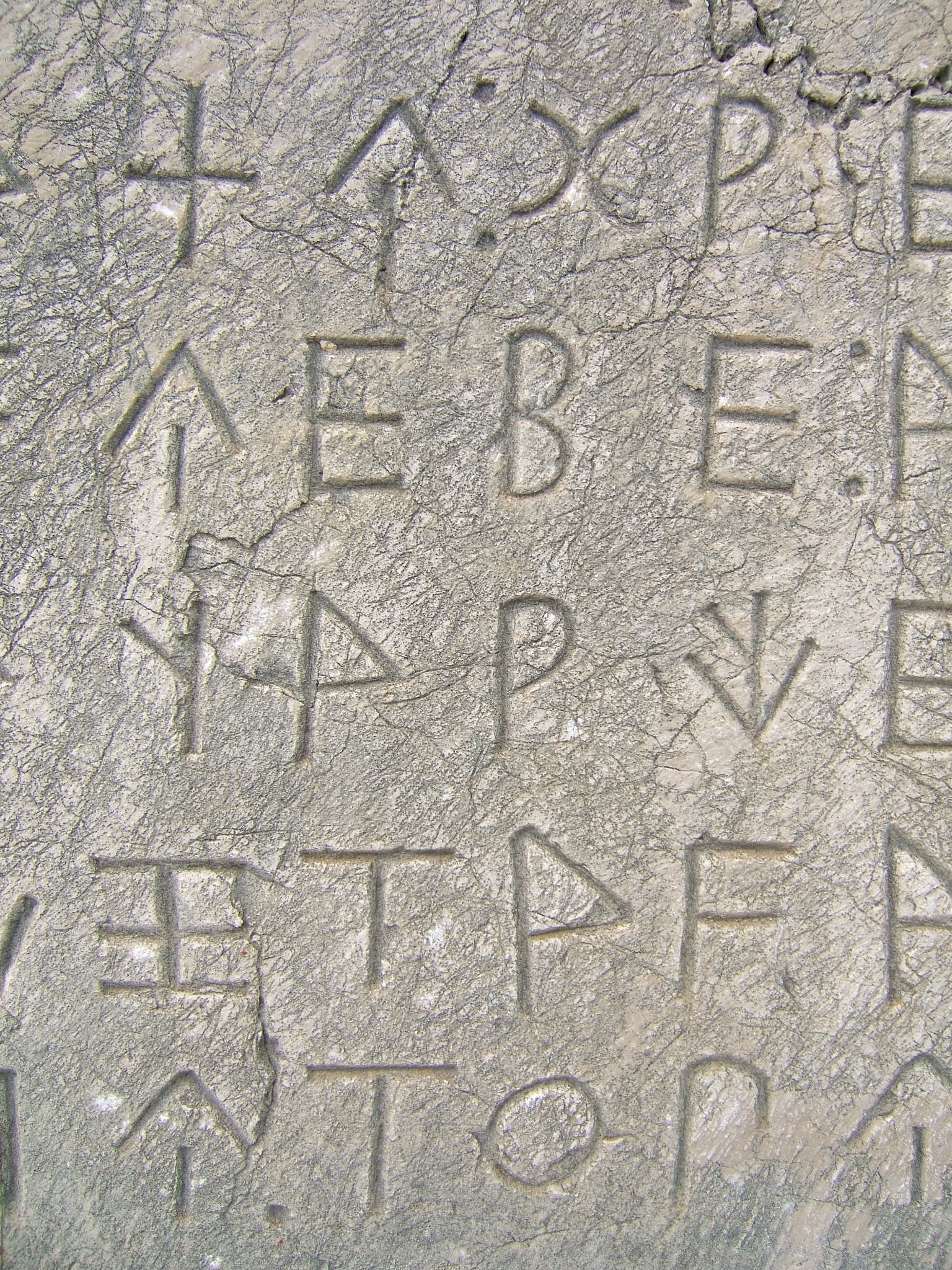 Close-up of Lycian letters from the inscriptions on the Xanthian Obelisk.